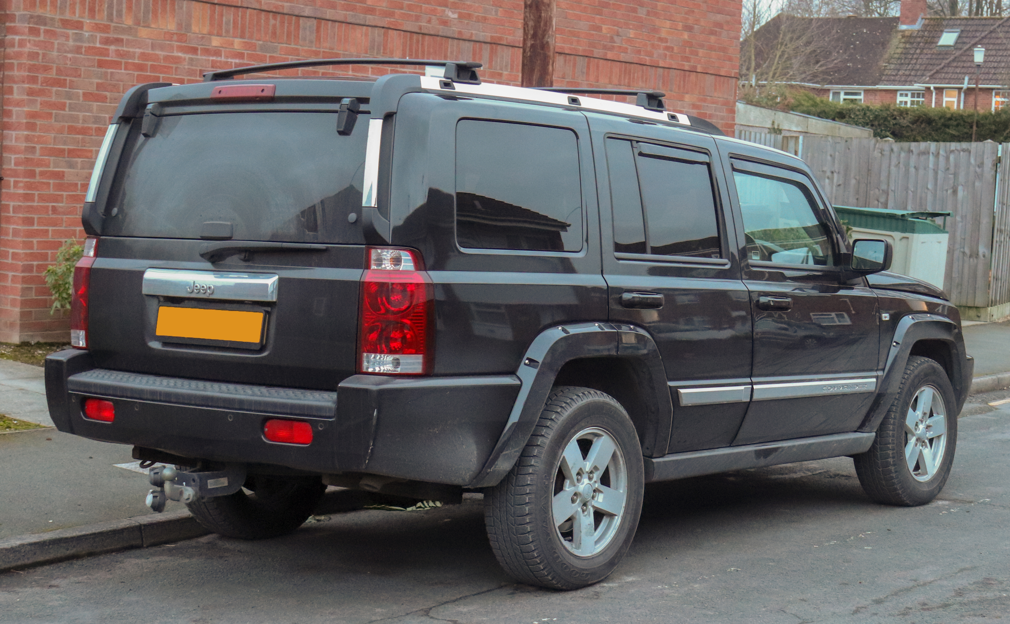 2007 Jeep Commander Limited CRD Automatic 3.0 Rear Taken in Warwick